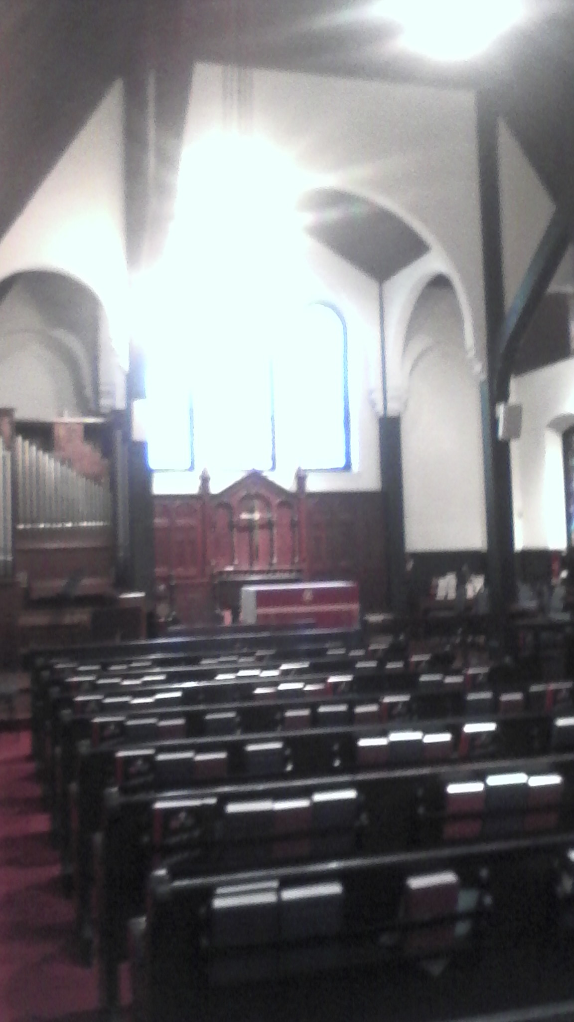 View from nave toward altar; organ at left, choir area at right